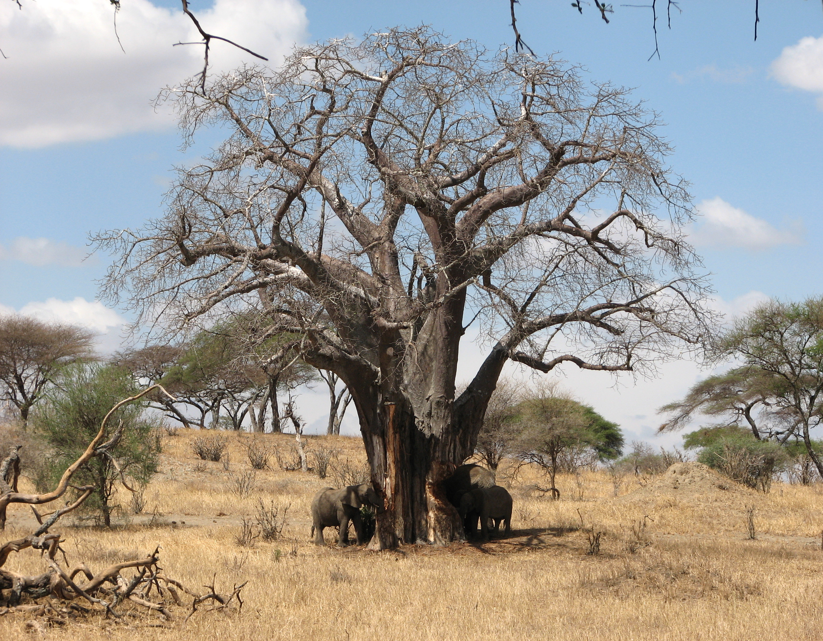 Elephants eat baobab tree bark, Tarangire National Park, Tanzania